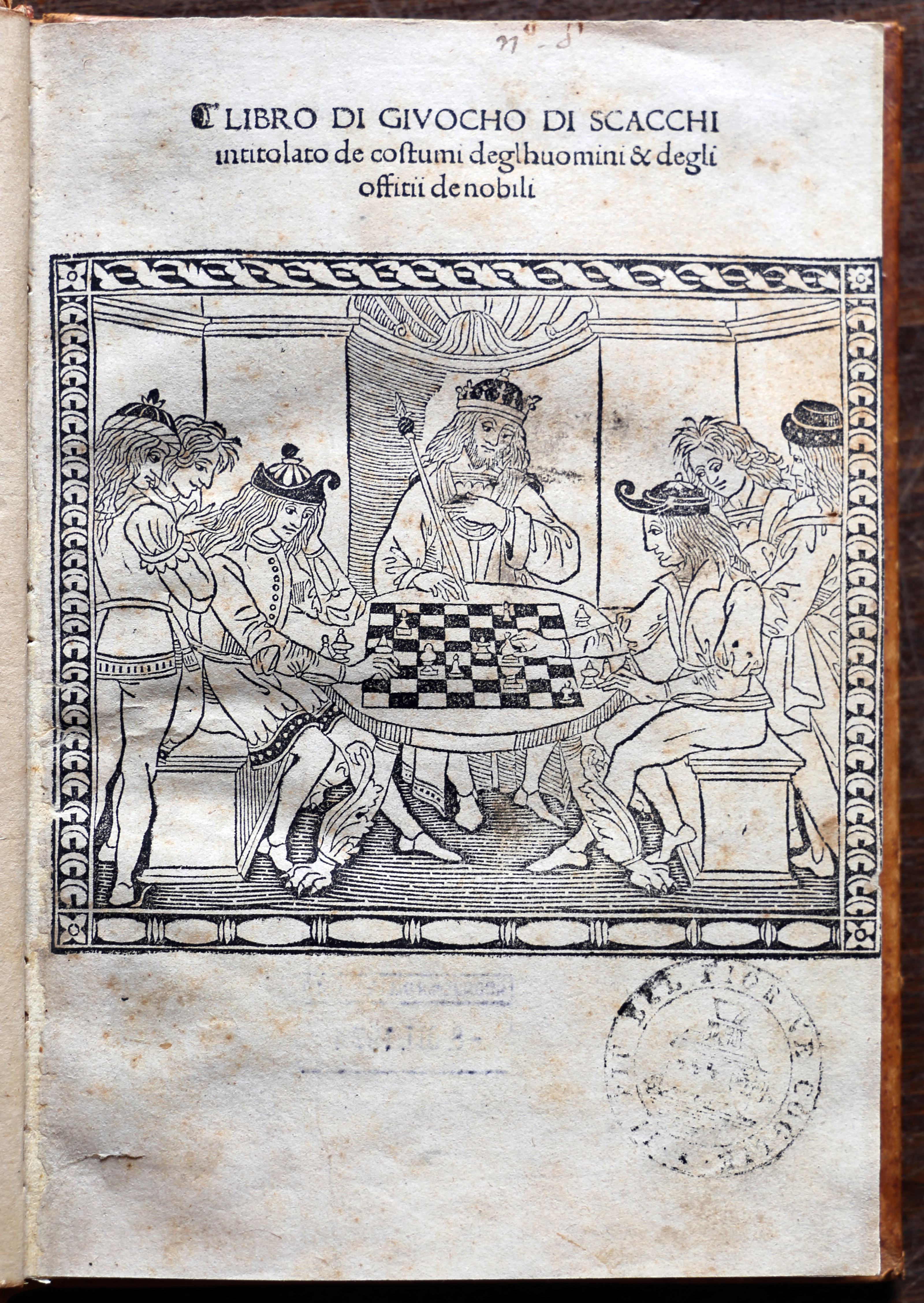 Libro di giuocho di scacchi (Crusca)